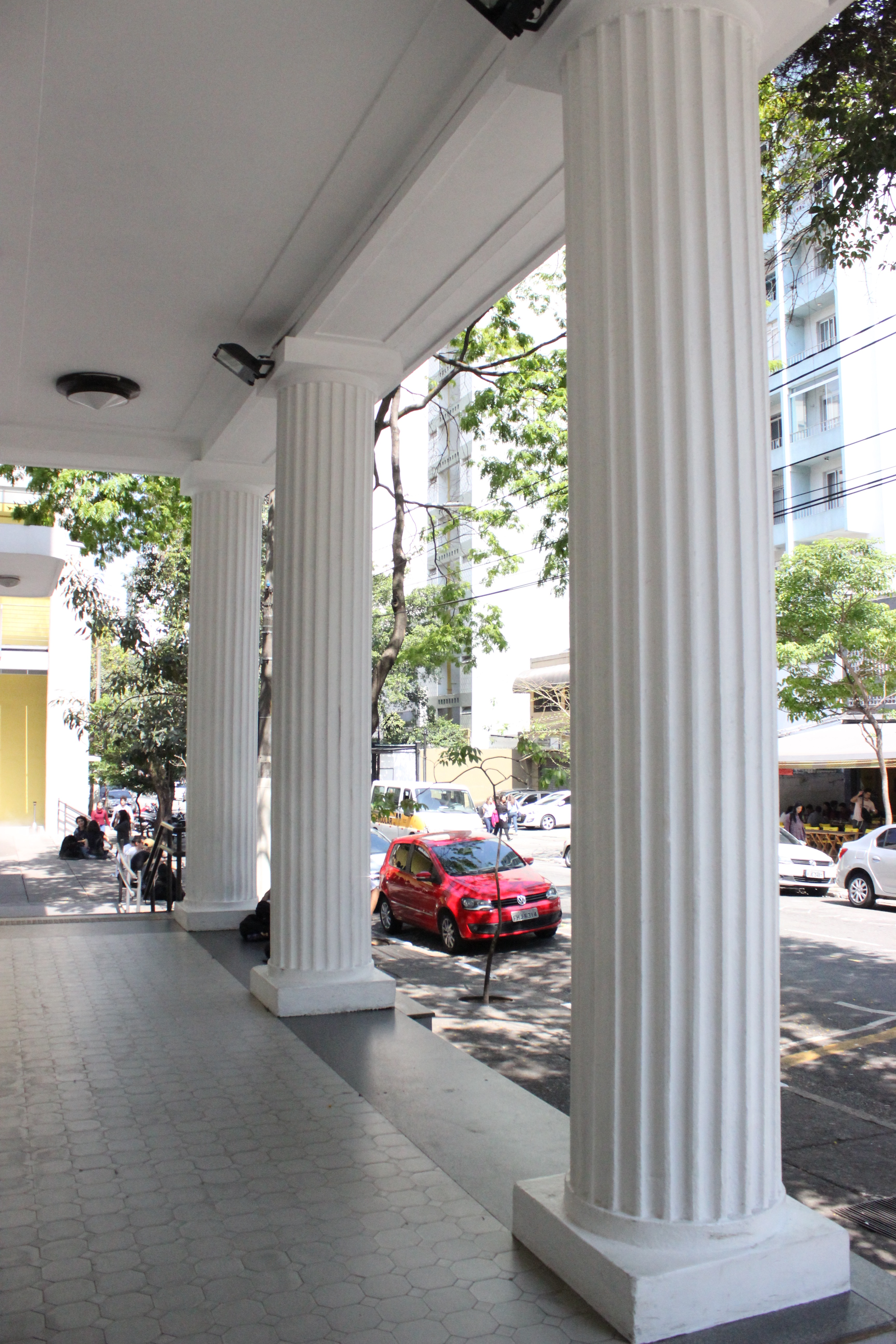 Pilasters of the façade.